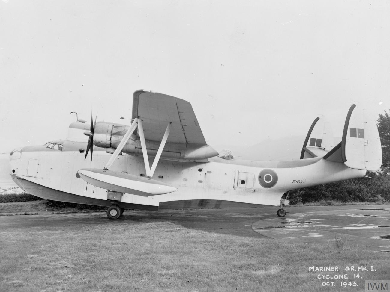 A Royal Air Force Coastal Command Martin PBM-3B Mariner I (s/n JX103) of No. 524 Squadron at Oban, Scotland (UK), in October 1943. The squadron was assessing the aircraft, but in the end the type was not adopted by the RAF, and in 1944 No. 524 re-equipped with the Vickers Wellington XIII.